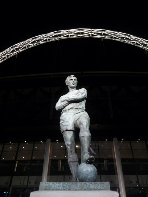 Wembley: Sir Bobby Moore floodlit, near to Wembley, Brent, Great Britain. Looking up towards the statue of Sir Bobby Moore outside the front of Wembley Stadium � both he and the iconic arch are floodlit to good effect.